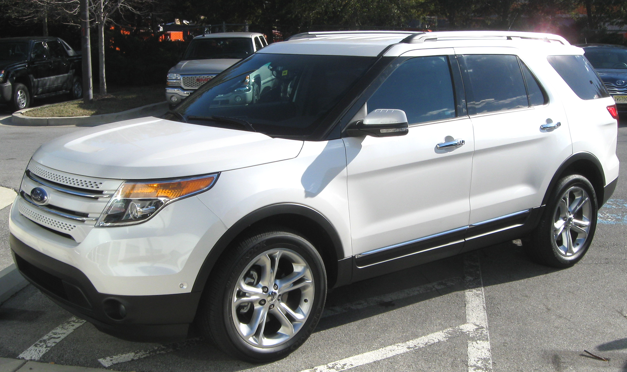 2011 Ford Explorer photographed in Upper Marlboro, Maryland, USA.